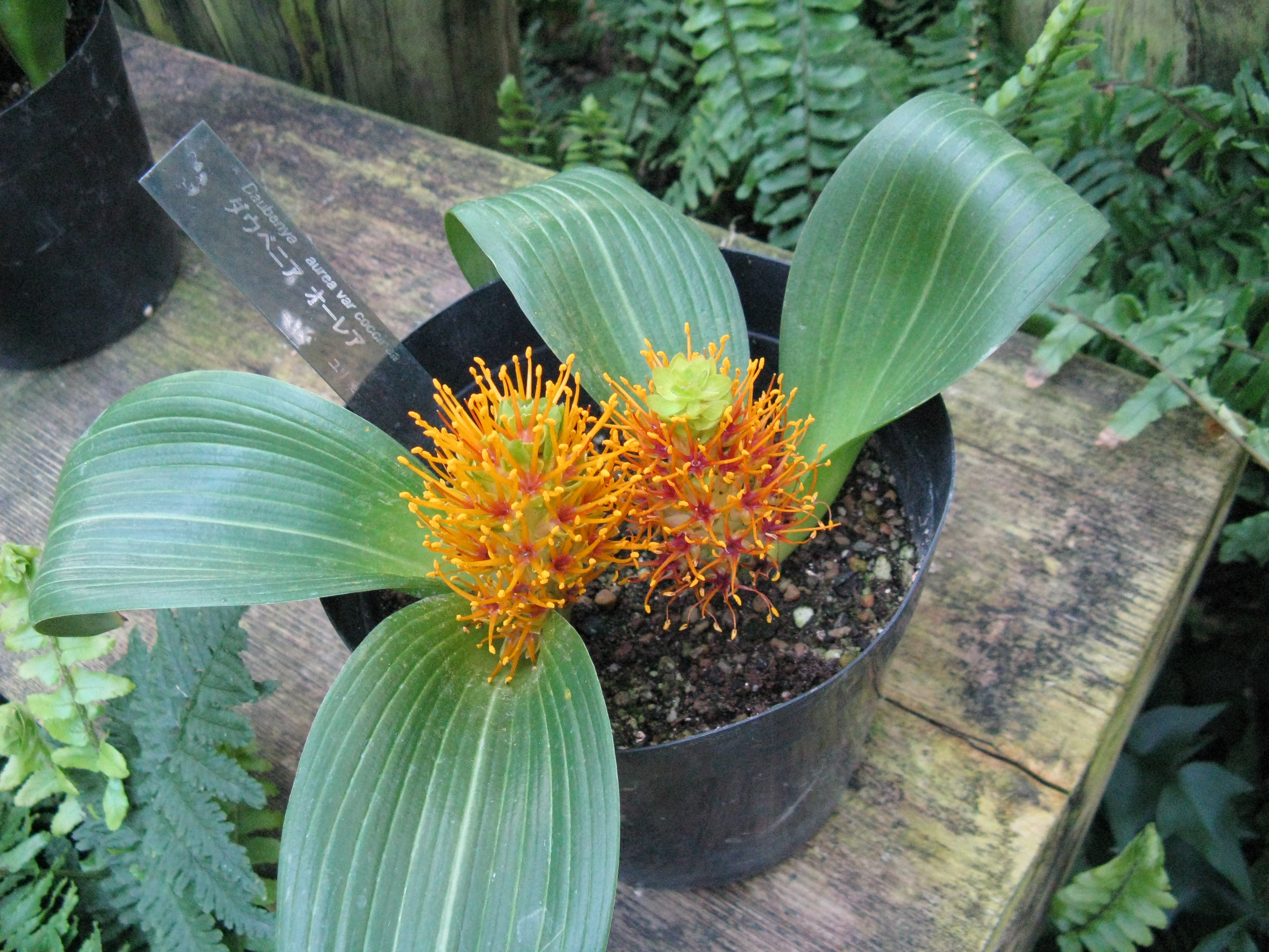 Scientific name Daubenya aurea Place:Osaka Prefectural Flower Garden,Osaka,Japan (I think this is actually Daubenya marginata var. coccinea; see here. D. aurea has flowers with the outer (adaxial) tepals much larger than the others. User:Peter coxhead)